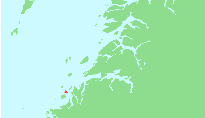 Locator map of Fleina, Nordland, Norway